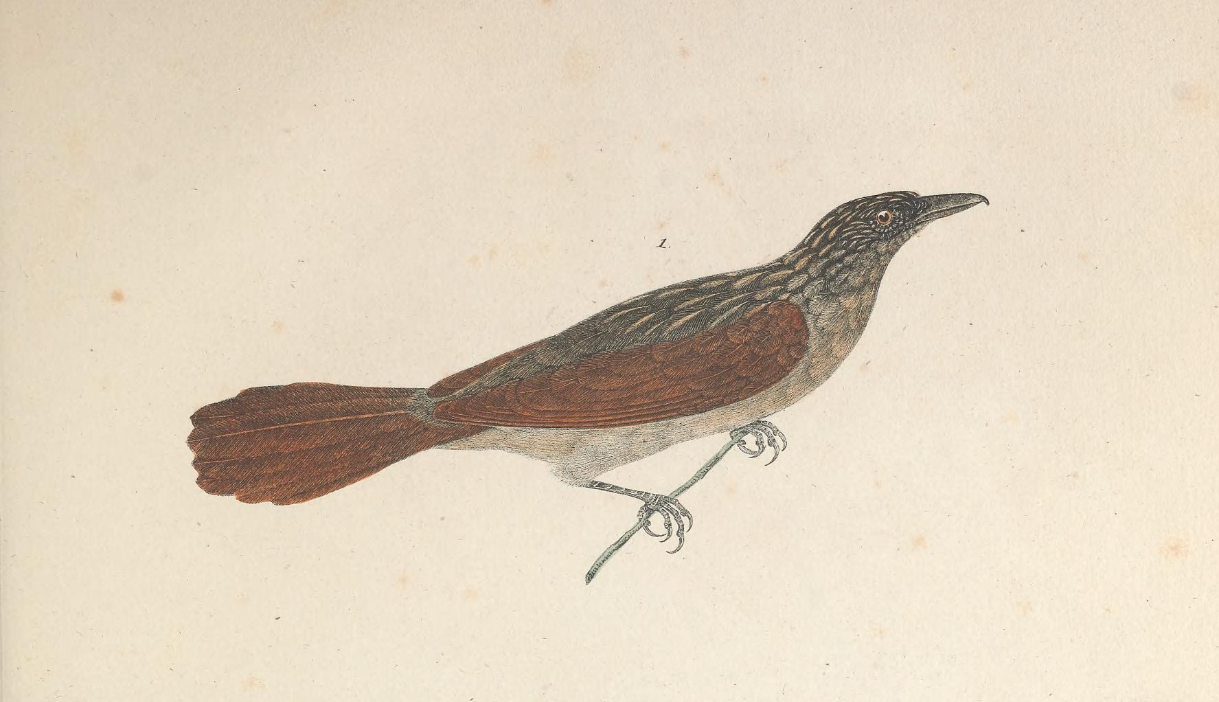 Avium species novae, quas in itinere per Brasiliam annis MDCCCXVII-MDCCCXX /. Monachii :Typis Franc. Seraph. Hübschmanni,1824-1825..